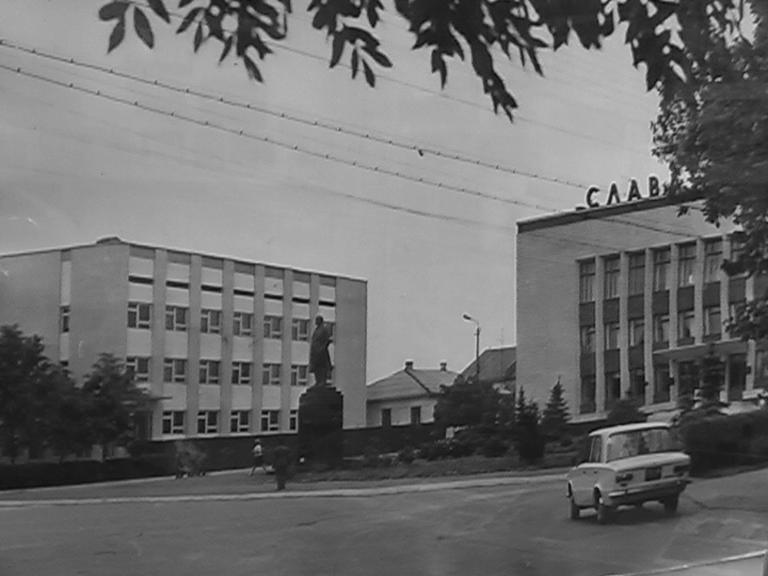 Polesskoye administration building, 1983.